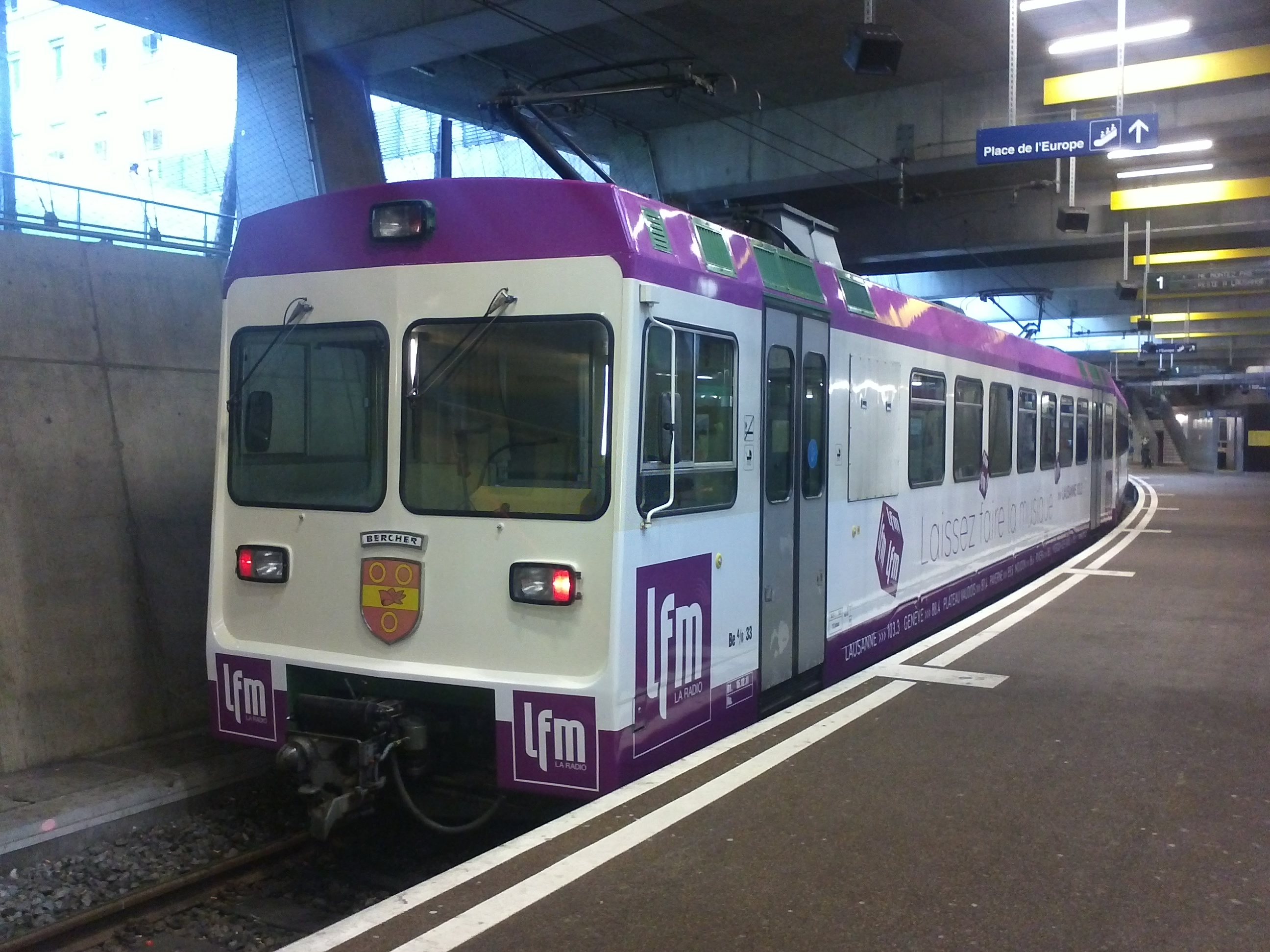 Be 4/8 33 at the railway station of Lausanne-Flon with advert for the radio LFM.